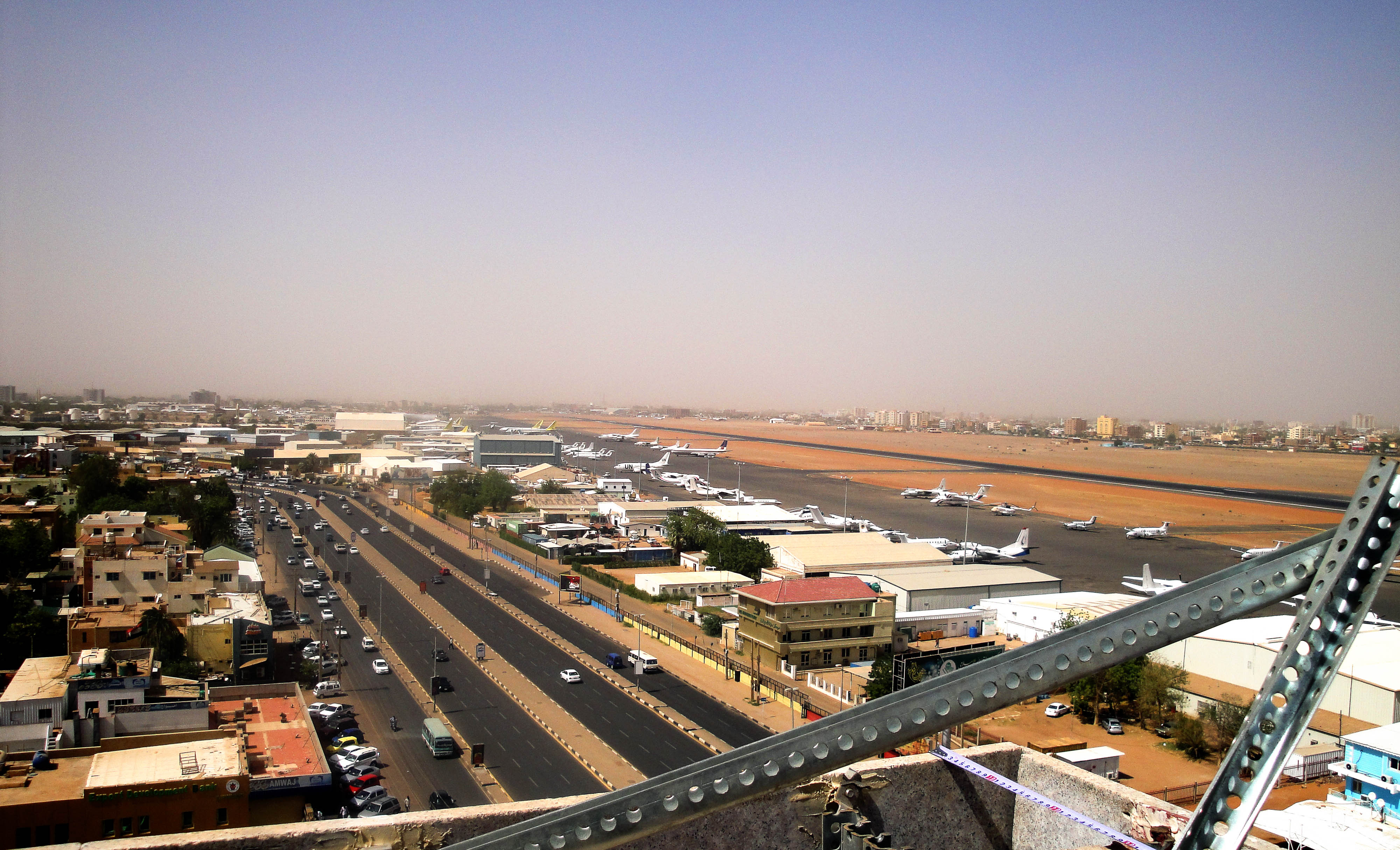 This is an image with the theme "Africa on the Move or Transport" from: Sudan